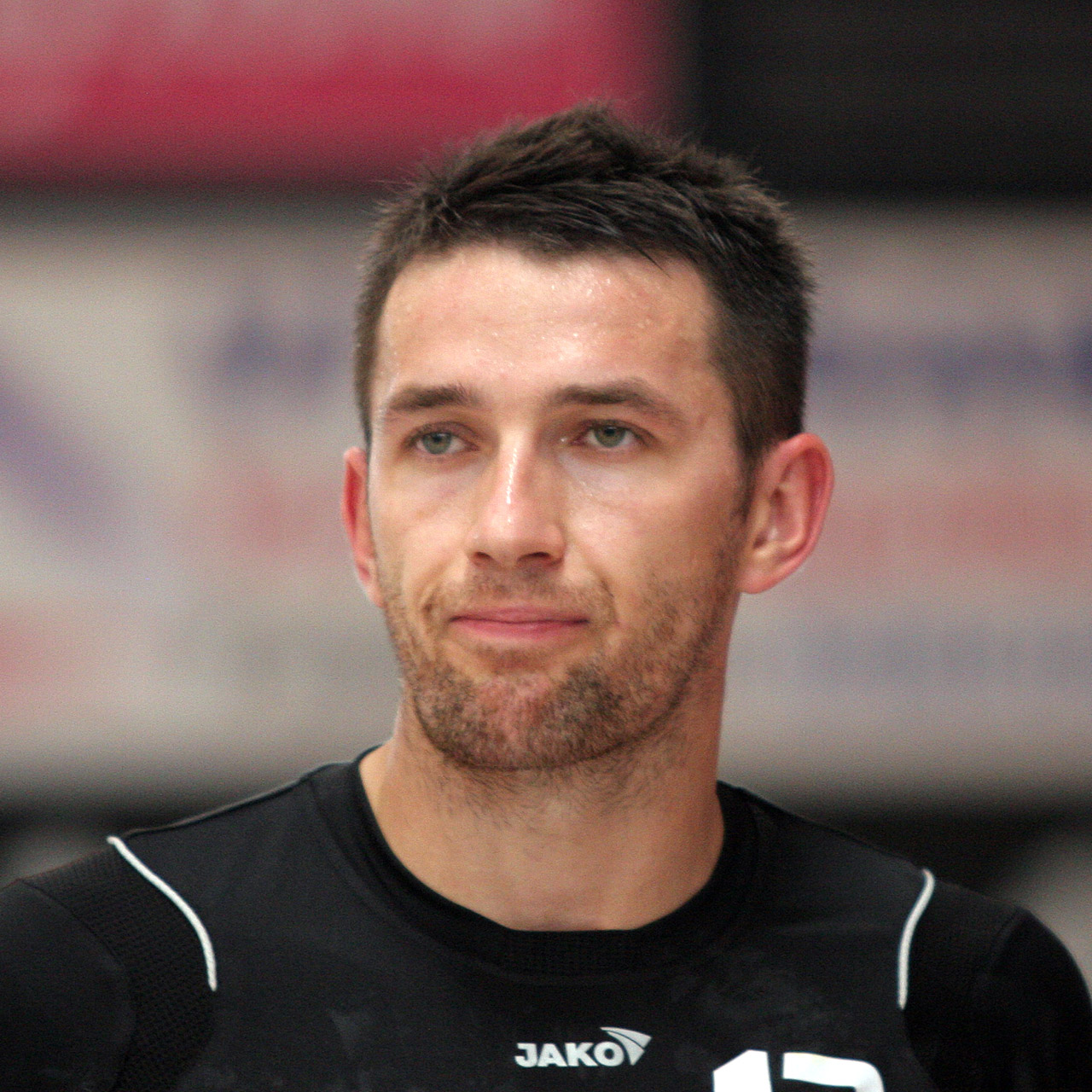 Ferenc Ilyés, handball player from KC Veszprém, on August 31st, 2008 in Ehingen (Germany) during the Schlecker Cup